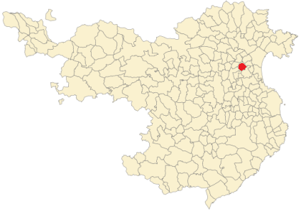 Siurana